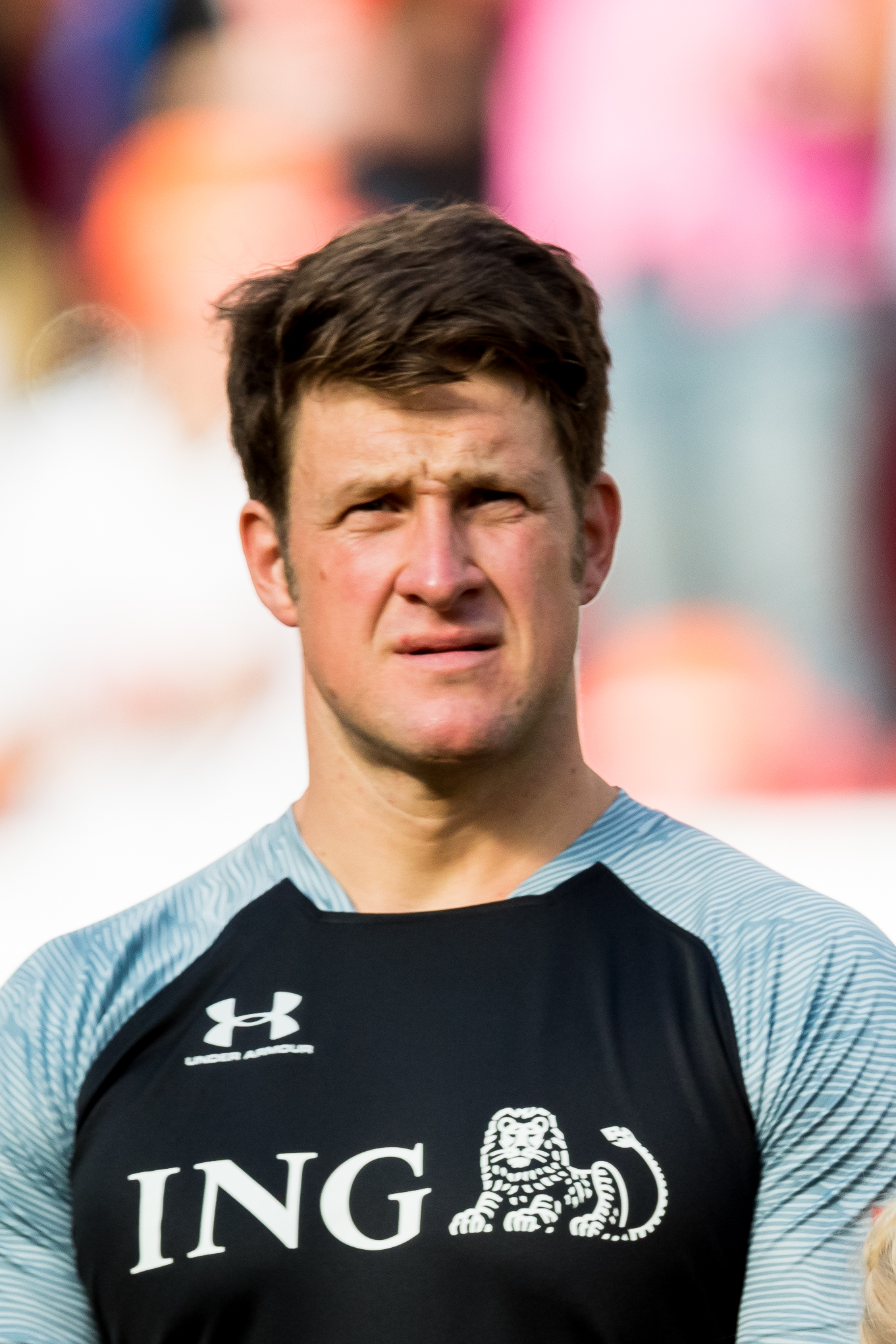 Matthias Steiner during Champions for Charity at BayArena, Leverkusen, Nordrhein-Westfalen, Germany on 2019-07-21, Photo: Sven Mandel